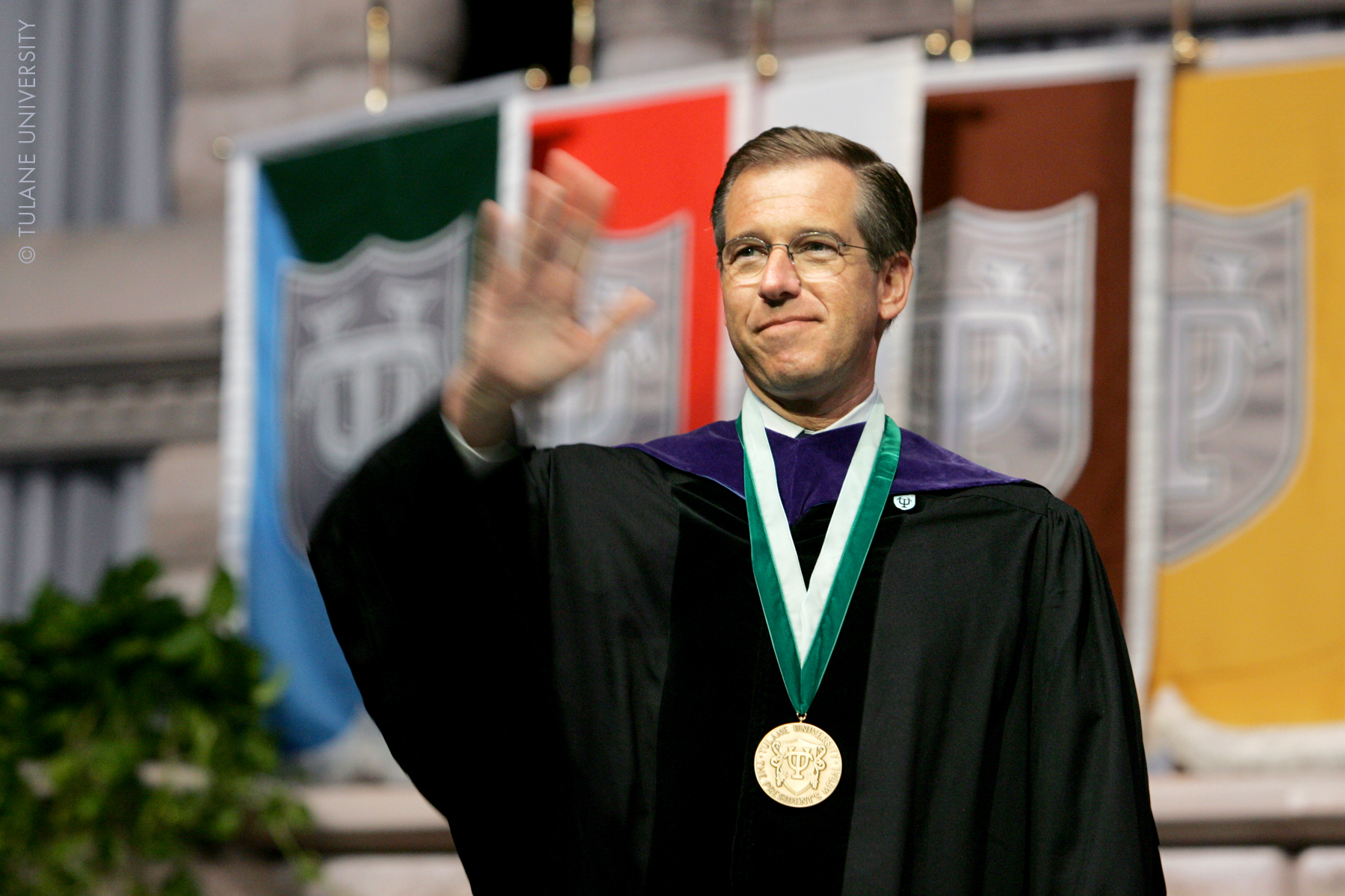 Brian Williams